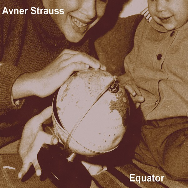 Album cover of Equator ,guitar instrumentals of Avner Strauss, double album.